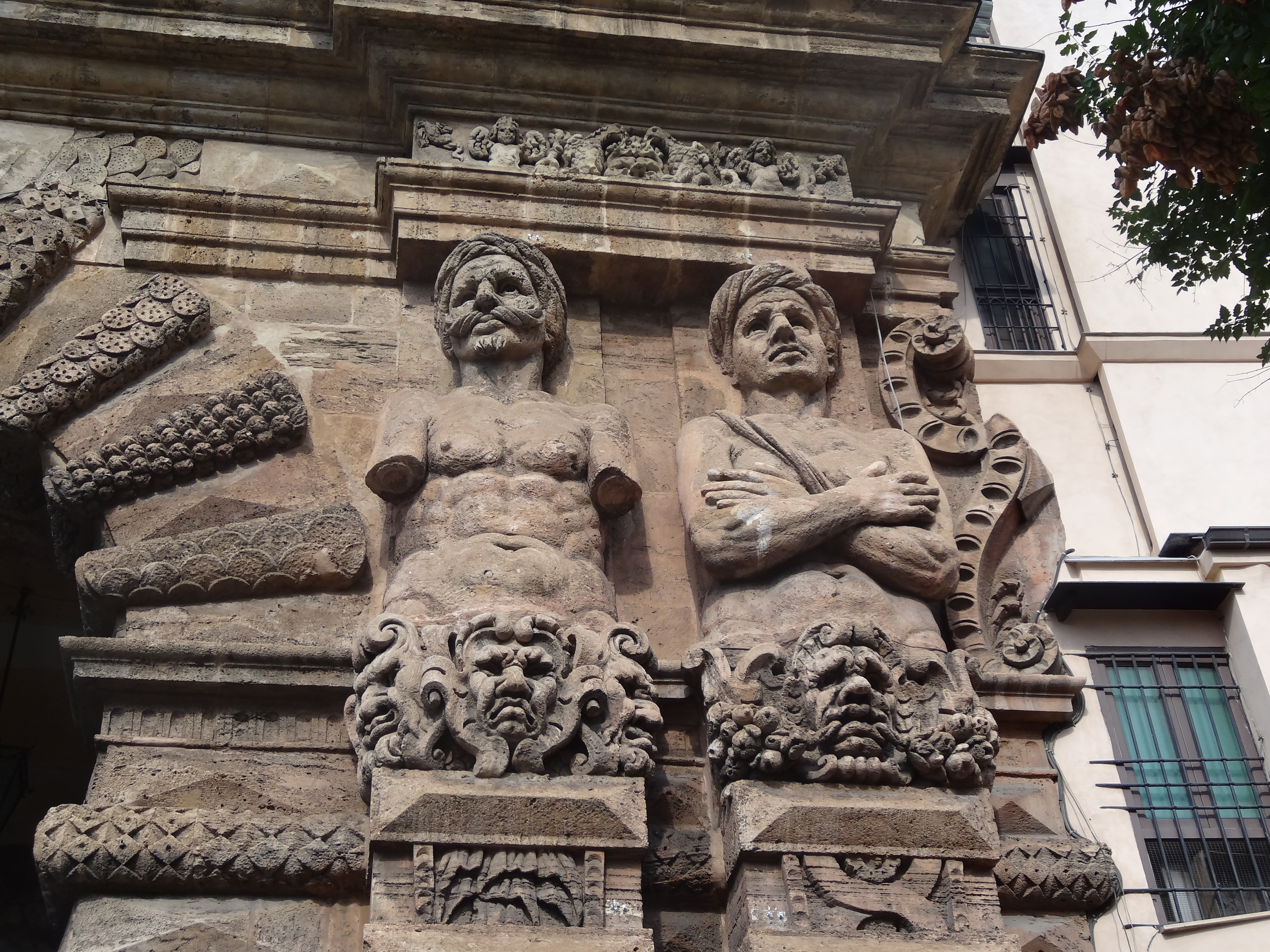 Porta nuova palermo